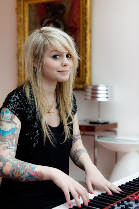 Béatrice Martin, aka Cœur de Pirate, Canadian pop singer-songwriter from Quebec.